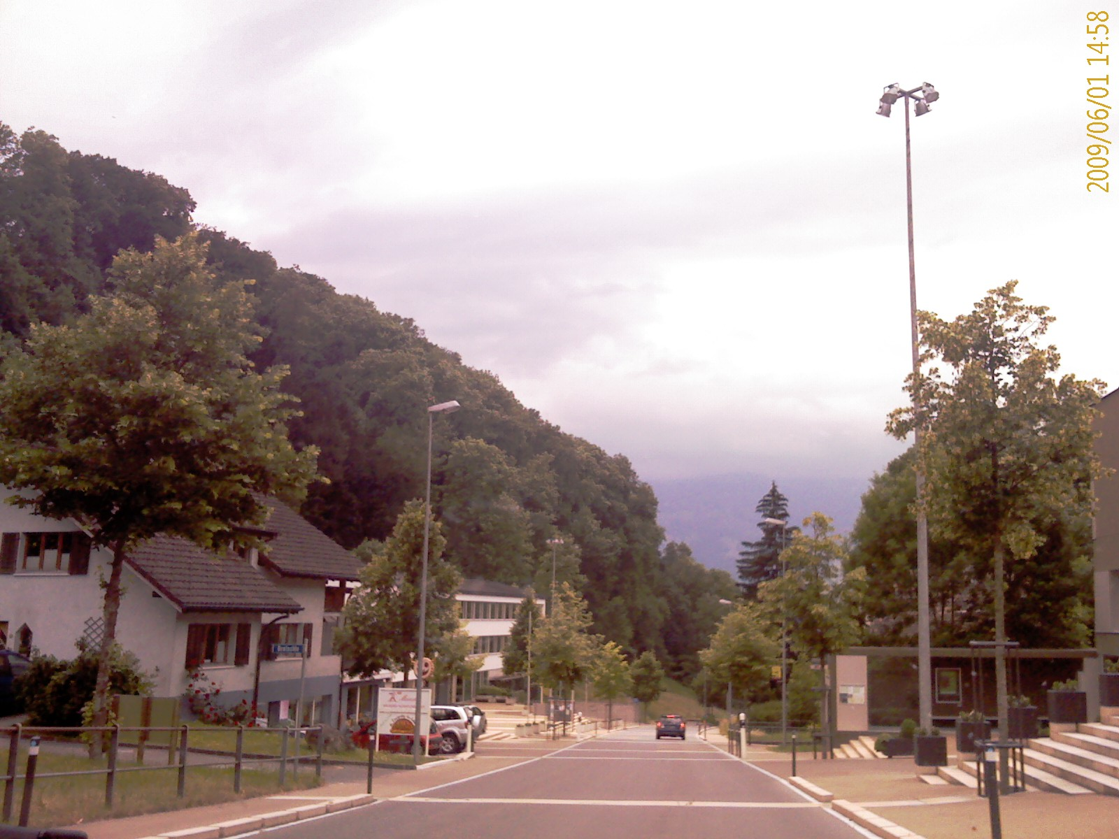 Gamprin, Liechtenstein